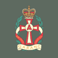 Cap Badge of the Queen Alexandria Nursing Corps Image of UK Military Cap Badge, originally Crown Copyright, Images that are pre 1953 are now Public domain.